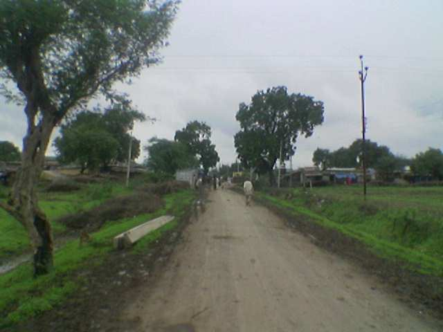 Picture of Savalde village(near Shahada, Maharashtra) taken standing on road just outside the village